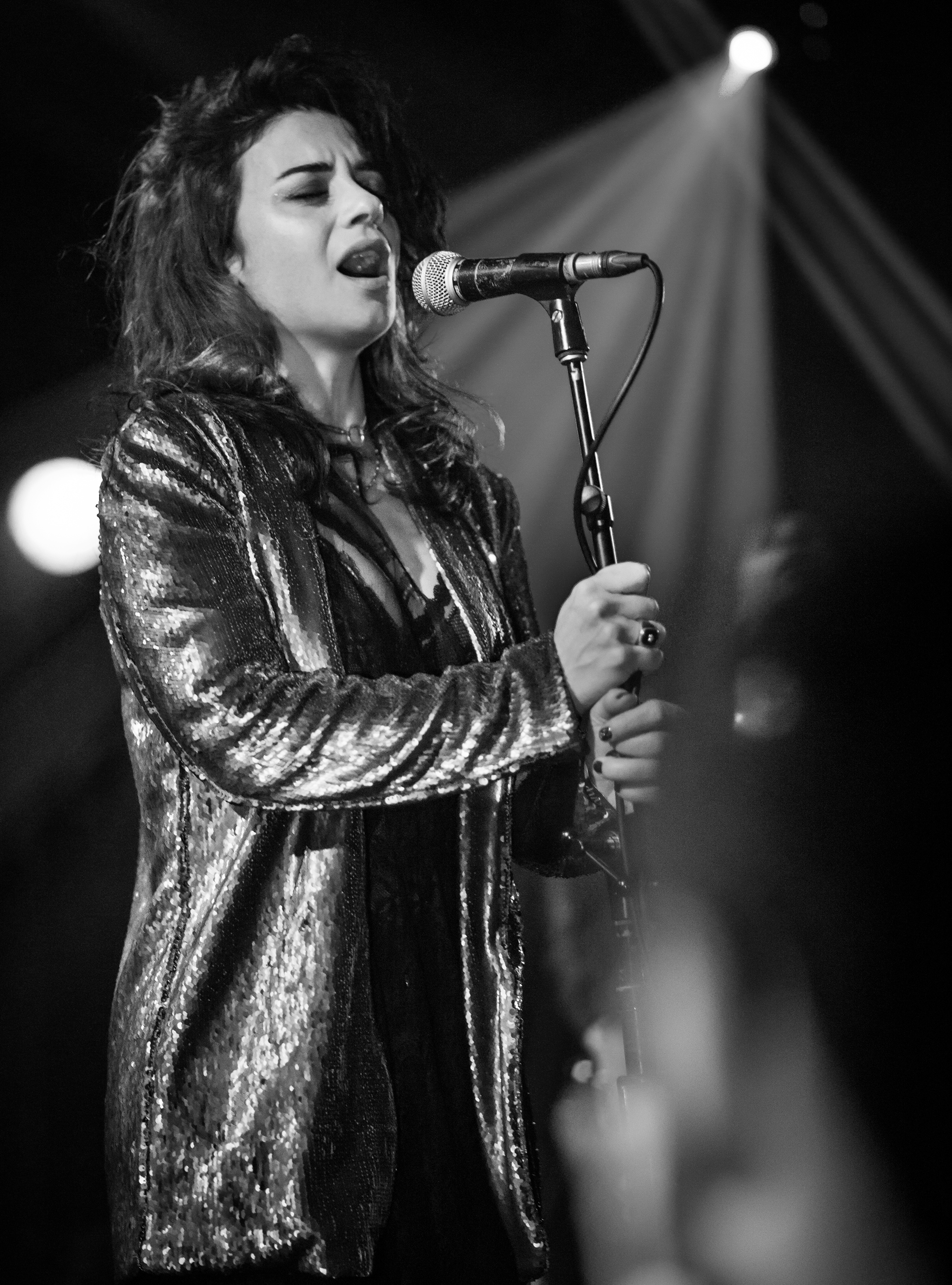 Ninet Tayeb at Echoplex